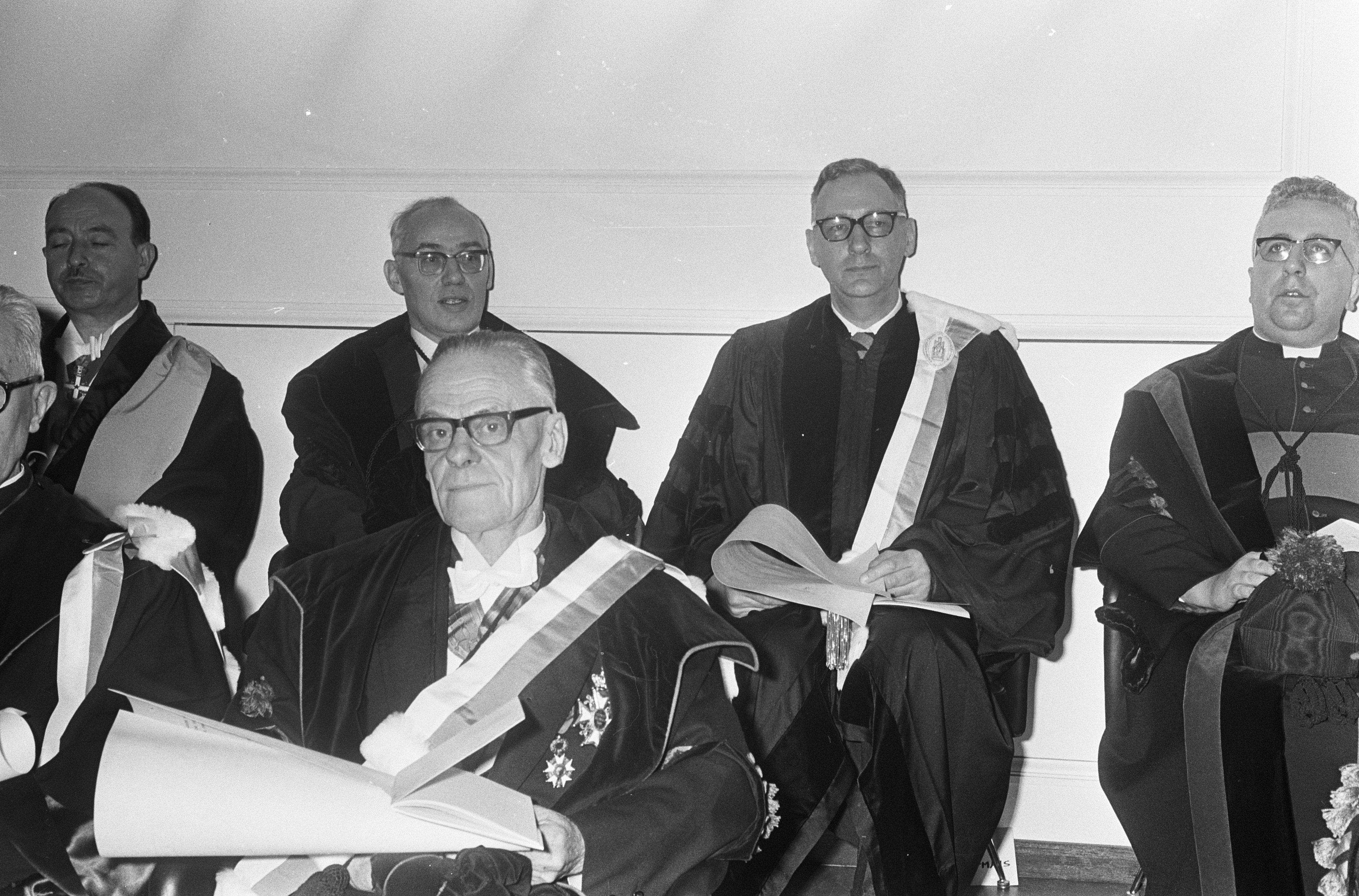 Honorary doctorates in Leuven (Belgium), 1967. Front row: (half face of François-Marie Braun)., W.A. Visser 't Hooft. Back row: Federigo Melis, Hans Ussing, Tjalling Koopmans, X.X.